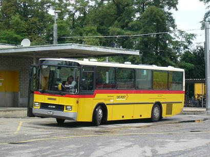 NAW/Hess bus (reg. BH4-550-24) in Switzerland.